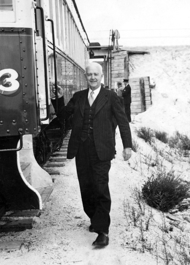 South Australian Railways Commissioner John A. Fargher, on his annual inspection of the railway system, in 1949. The location is the loading plant at the gypsum mine owned by Waratah Gypsum Pty Ltd at Lake MacDonnell, on the Eyre Peninsula. The following year, a new branch line was completed between the "Waratah Gypsum Company’s Field" (denoted as "Kevin" in 1955) and Kowulka, near Penong, allowing gypsum to be transported by rail. (Previously, an 8 km long aerial ropeway – its cables visible in the photograph – had been the mode of transport but by 1949 road trucks were being used; the ropeway was dismantled in the late 1960s.)